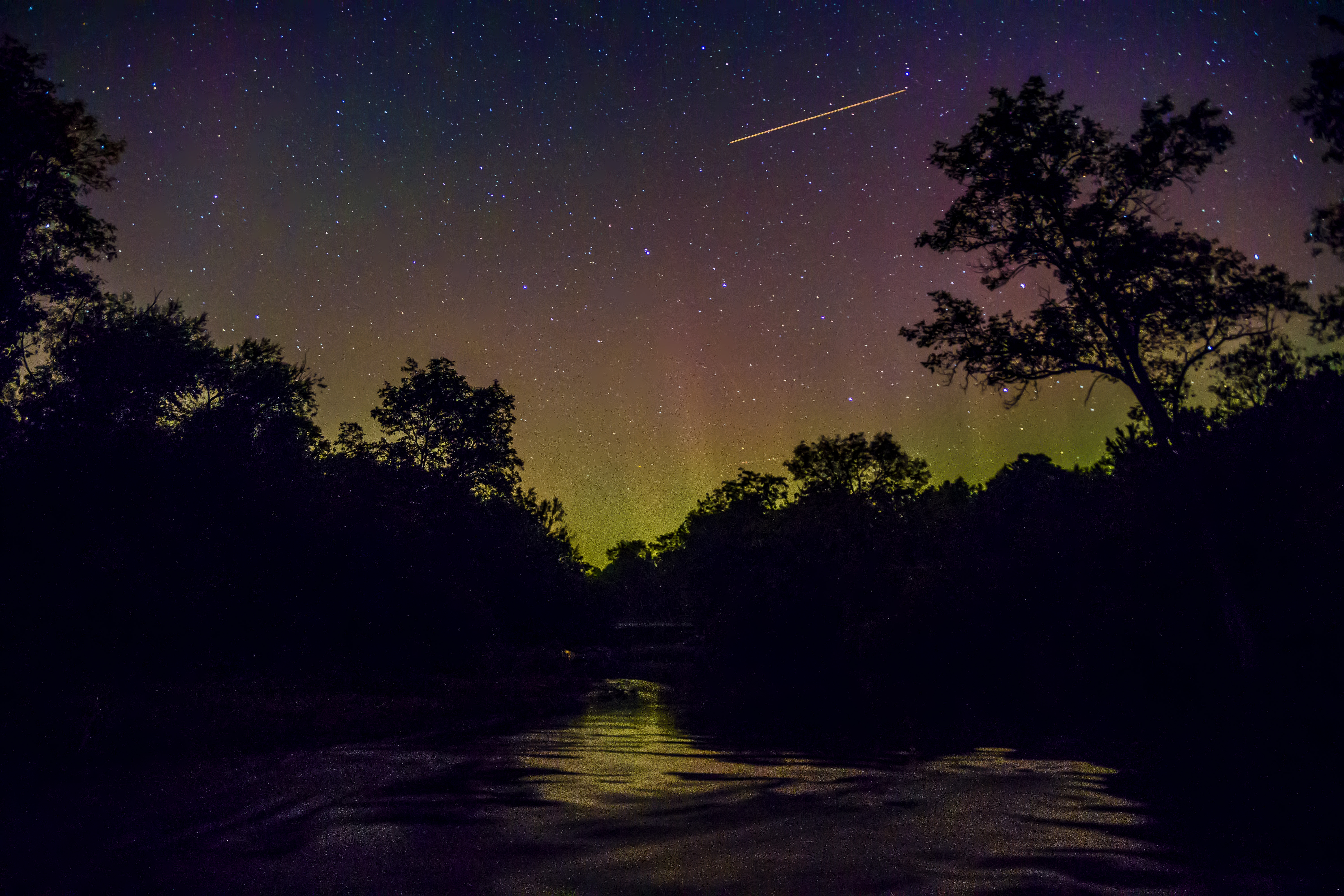 Star falling into the aurora over the Kewaunee River.